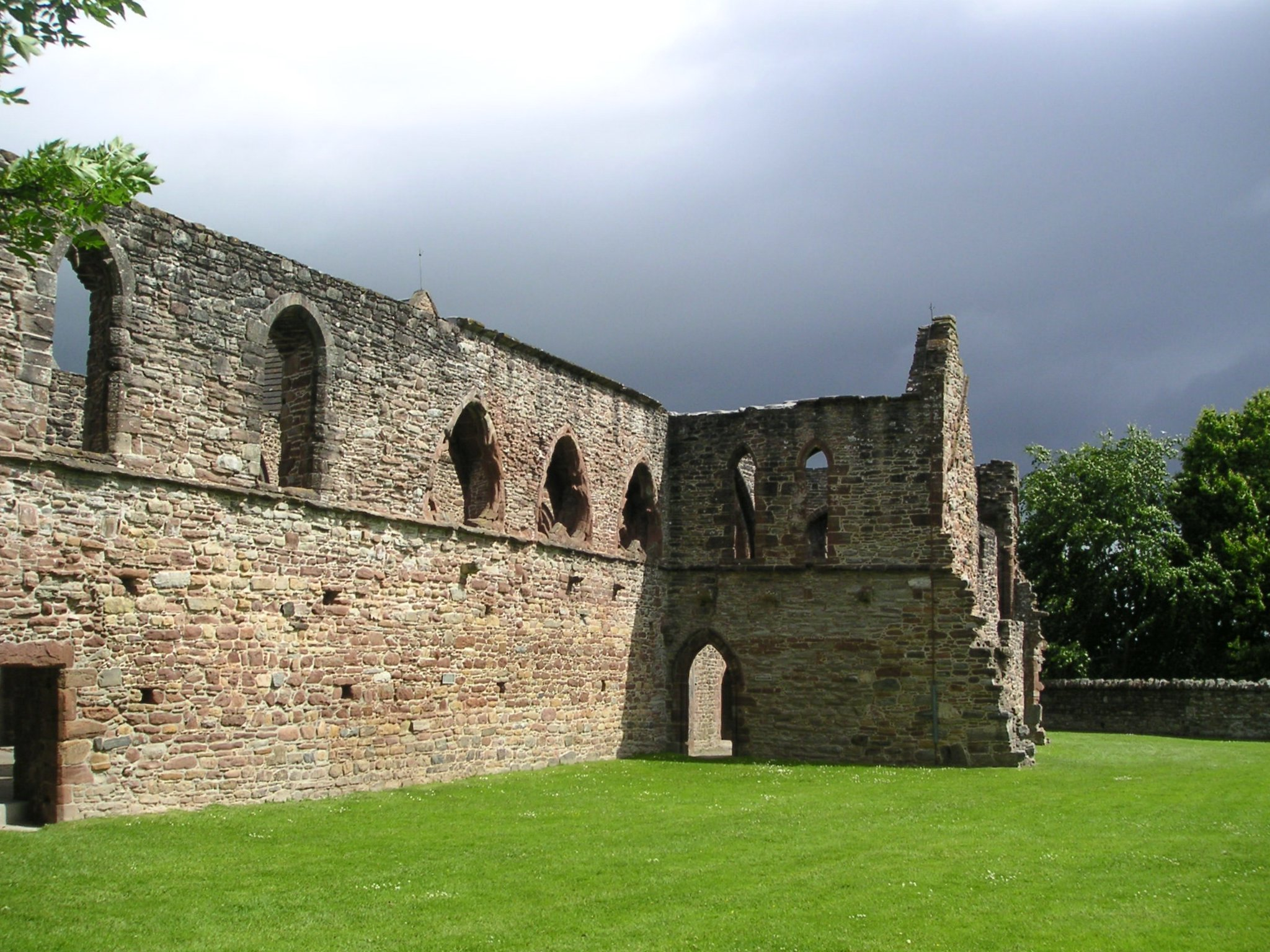 Beauly Priory, Scotland Author:Wojsyl